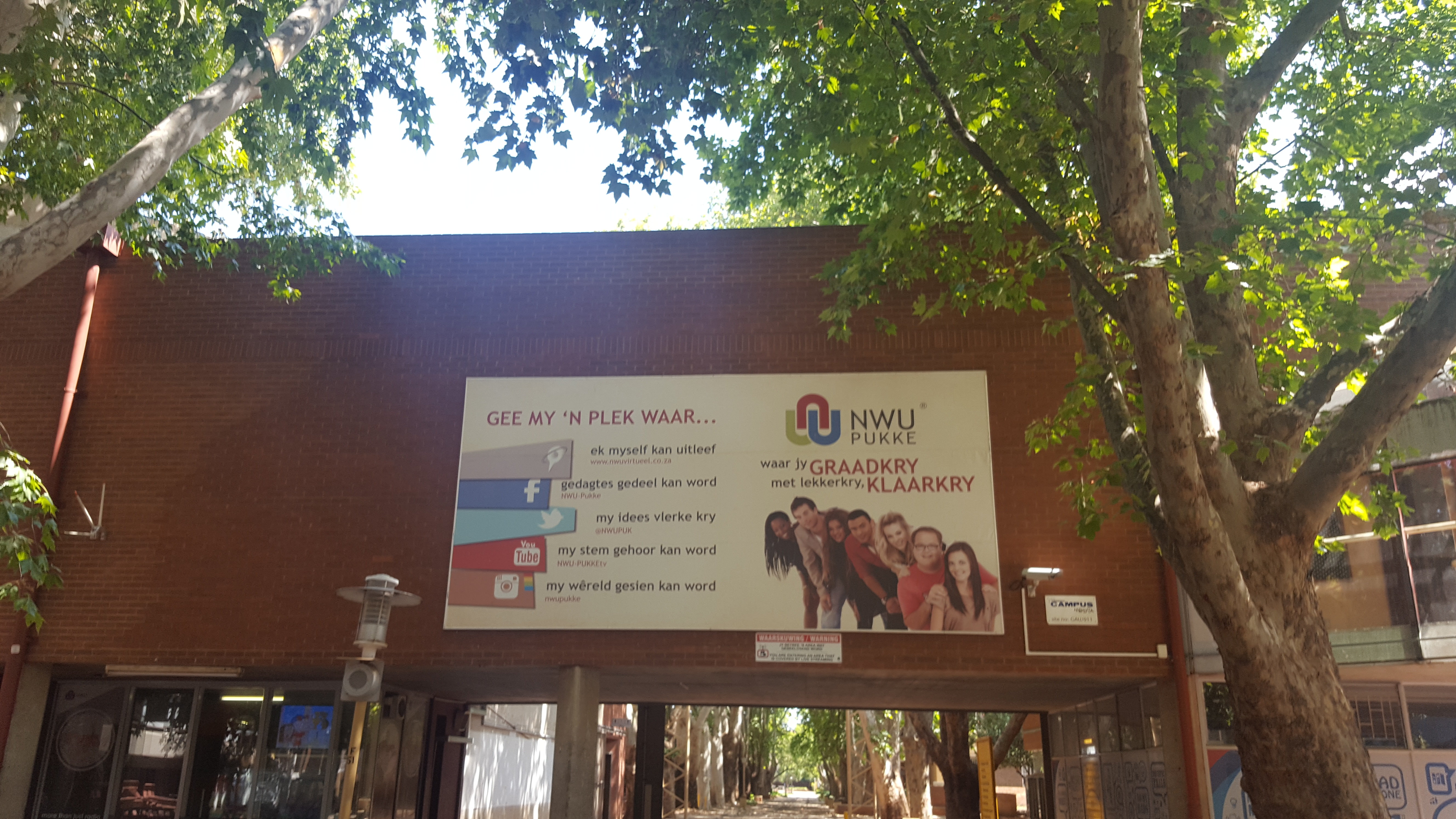 North-West University Potchefstroom 2017